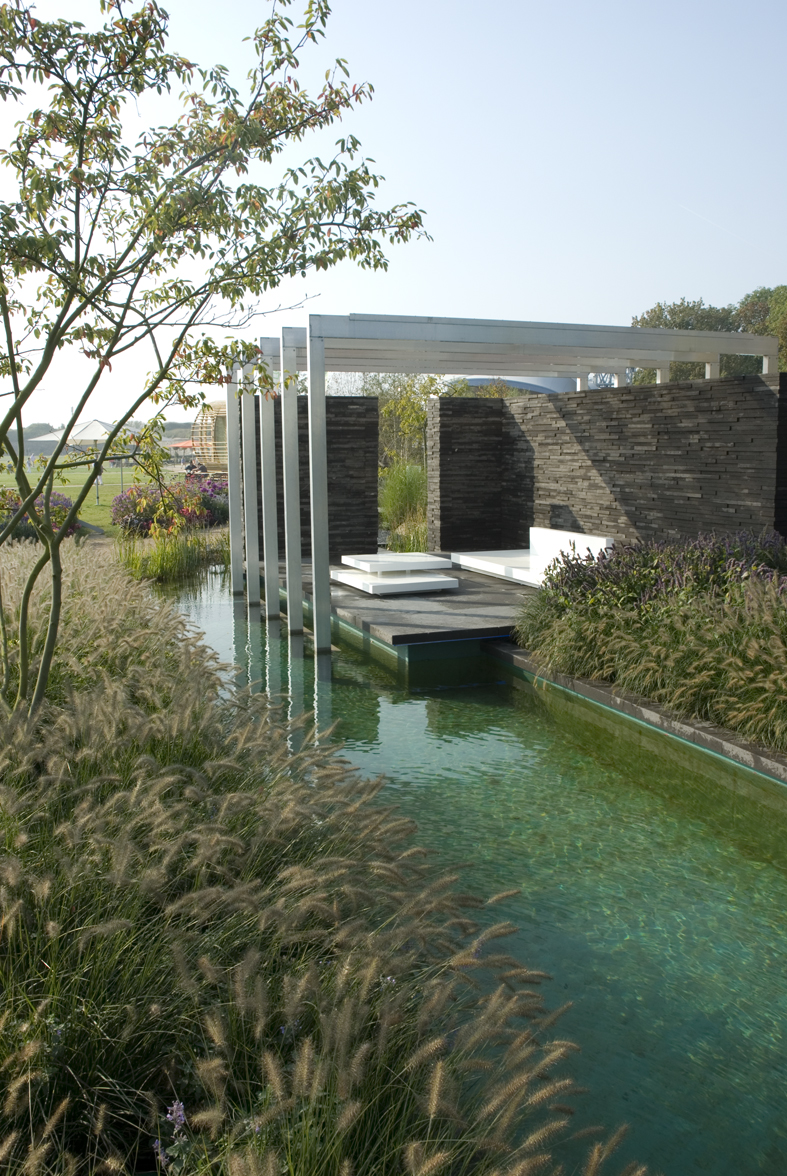 A basalt-pavillon with a natural pool at the national flower show "Bundesgartenschau Koblenz 2011". The award-winnig Design is by Peter Berg from Sinzig at Rhine River.